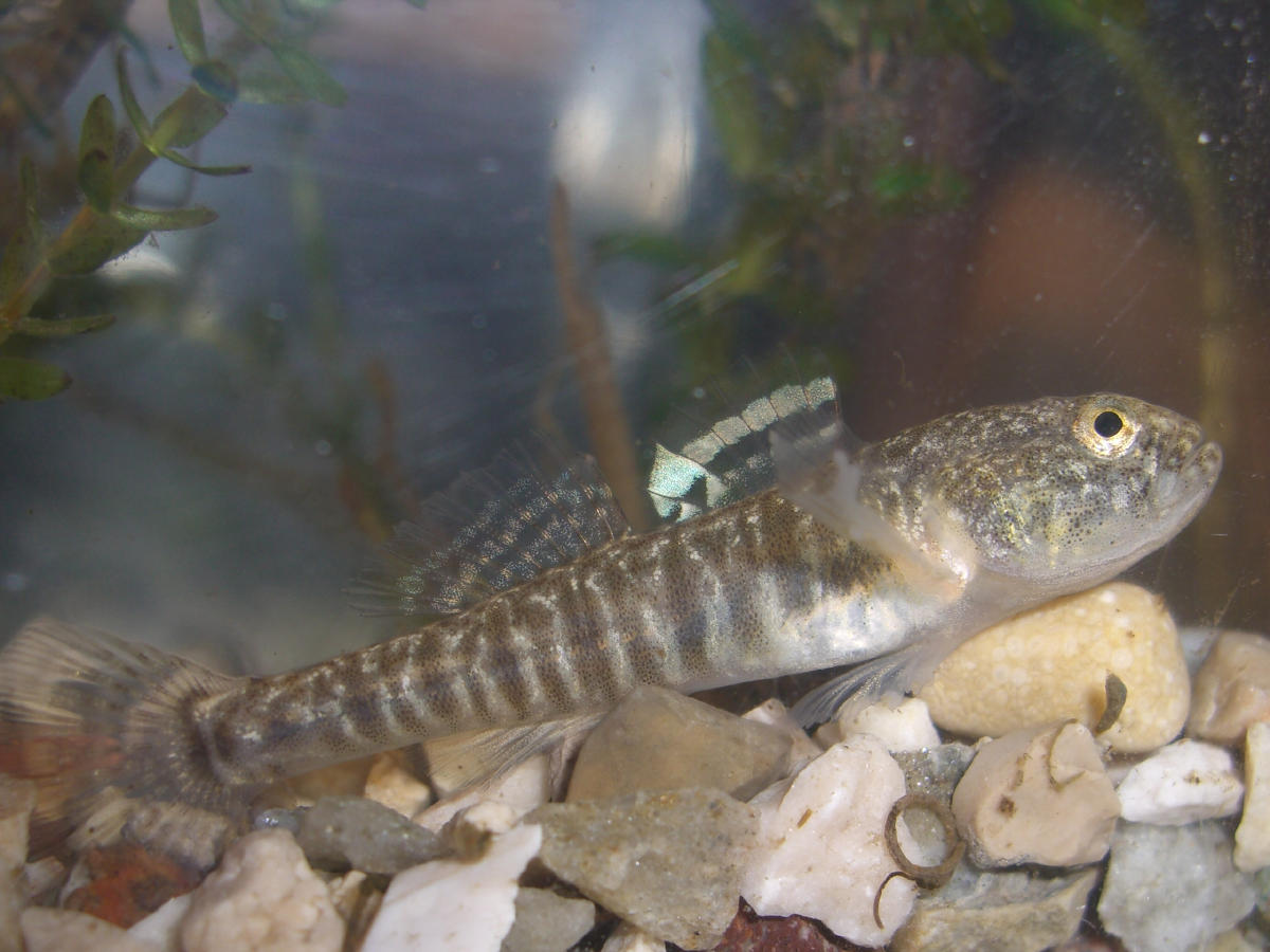 Knipowitschia punctatissima photographed in Veneto (North-east Italy). Photo by Francesco Sanna.